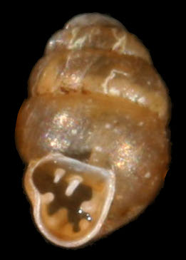 Photo of a shell of Vertigo pusilla. Locality: Germany: Schleswig-Holstein, Kellersee. Date: 07-08-2001.